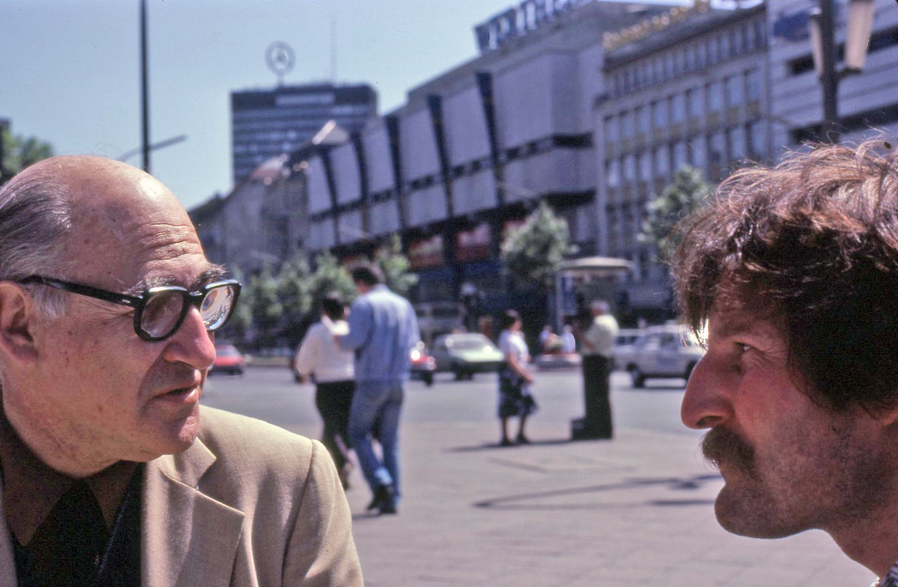 George Mosse (left) and Gert Mattenklott conversing in Berlin